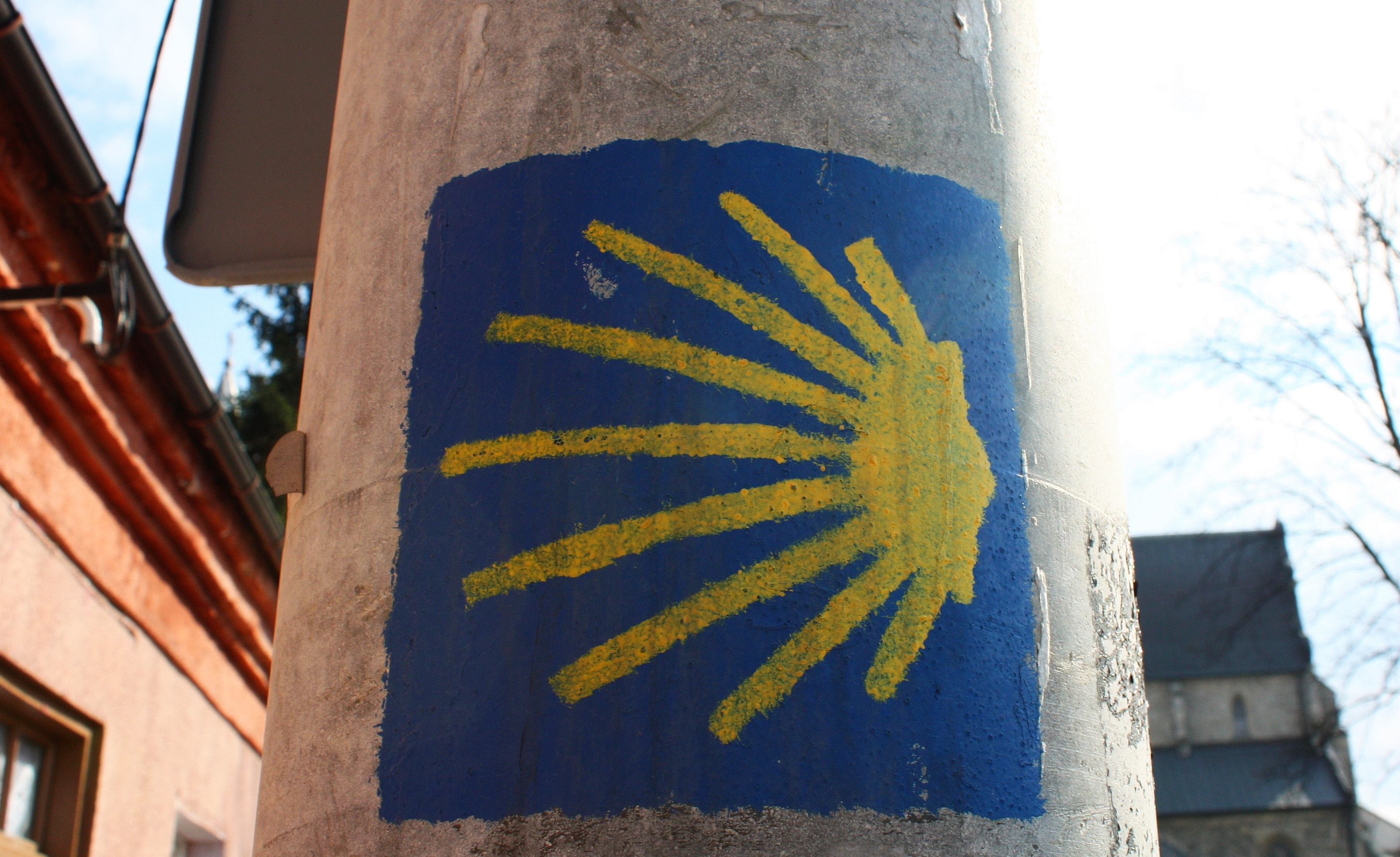 symbol szlaku św. Jakuba w Skalbmierzu